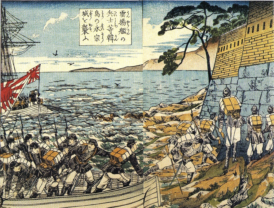 A depiction of the Ganghwa Island incident, an armed encounter between the Joseon Dynasty of Korea and Japan in the vicinity of Ganghwa Island, showing Japanese marines from the gunboat Un'yō landing on Yeongjong Island on 20 September 1875 to attack the Yeongjong castle (actually a battery).